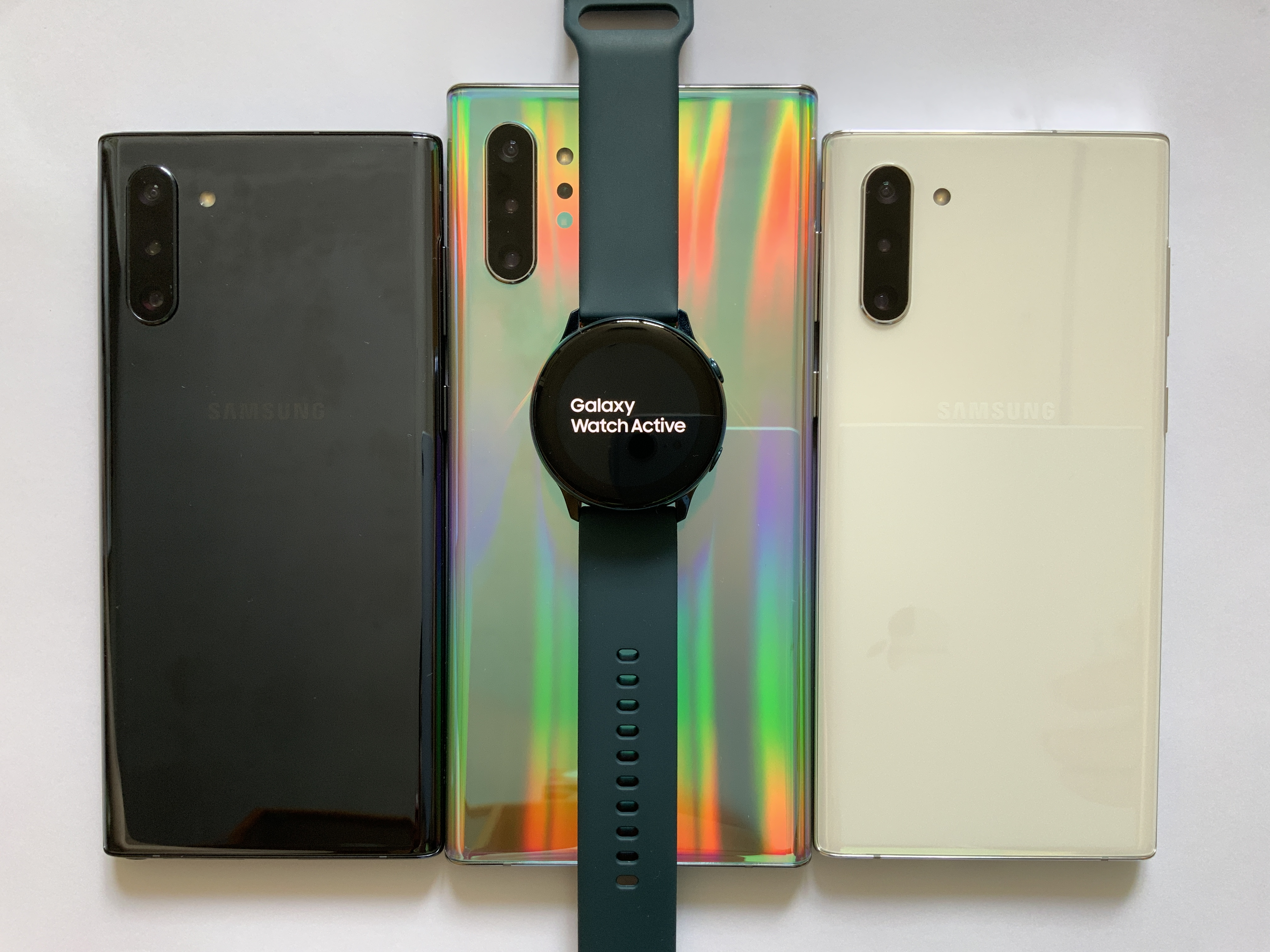 Samsung Galaxy Smartwatch